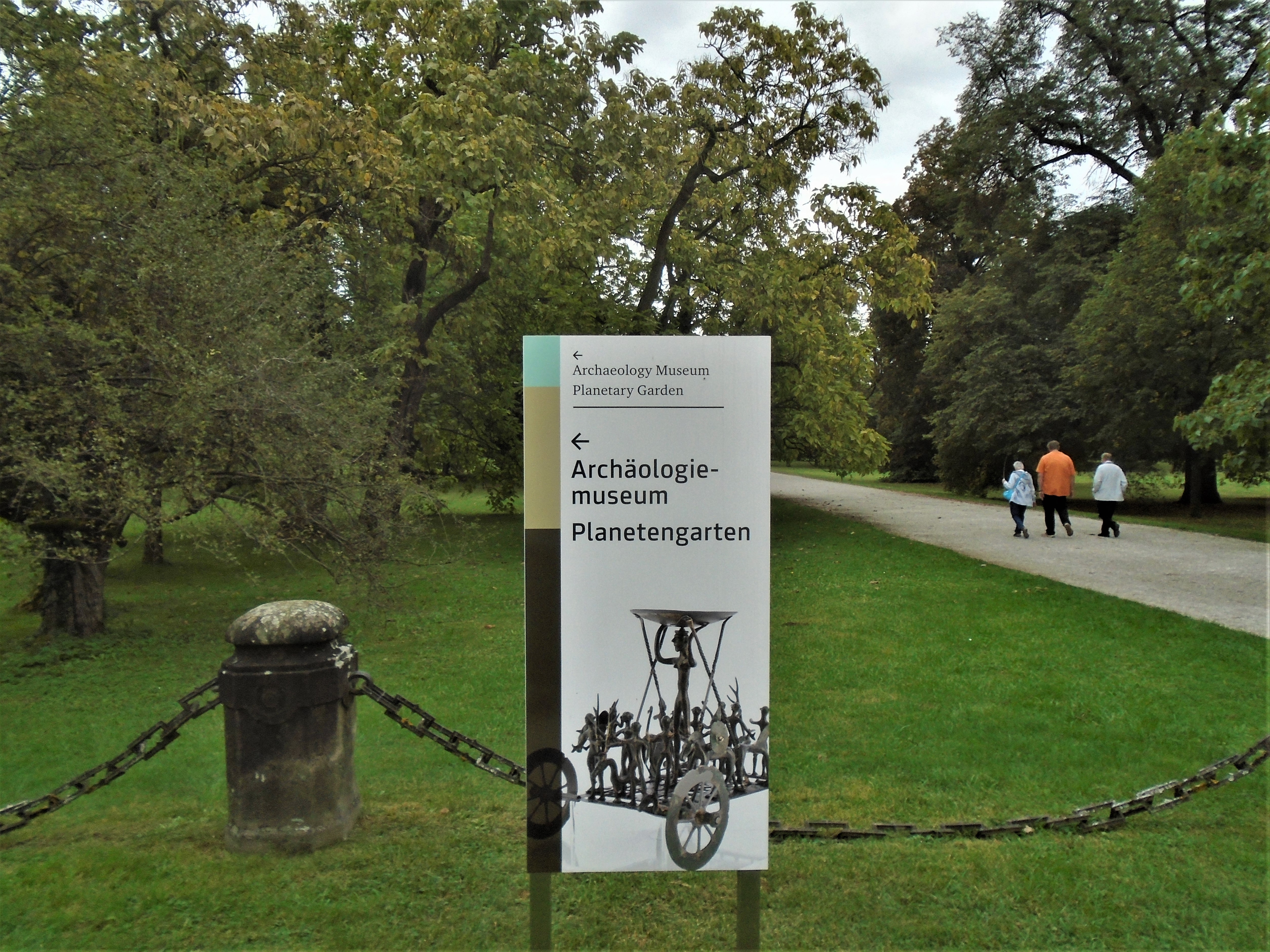 Eggenberg Palace Gardens